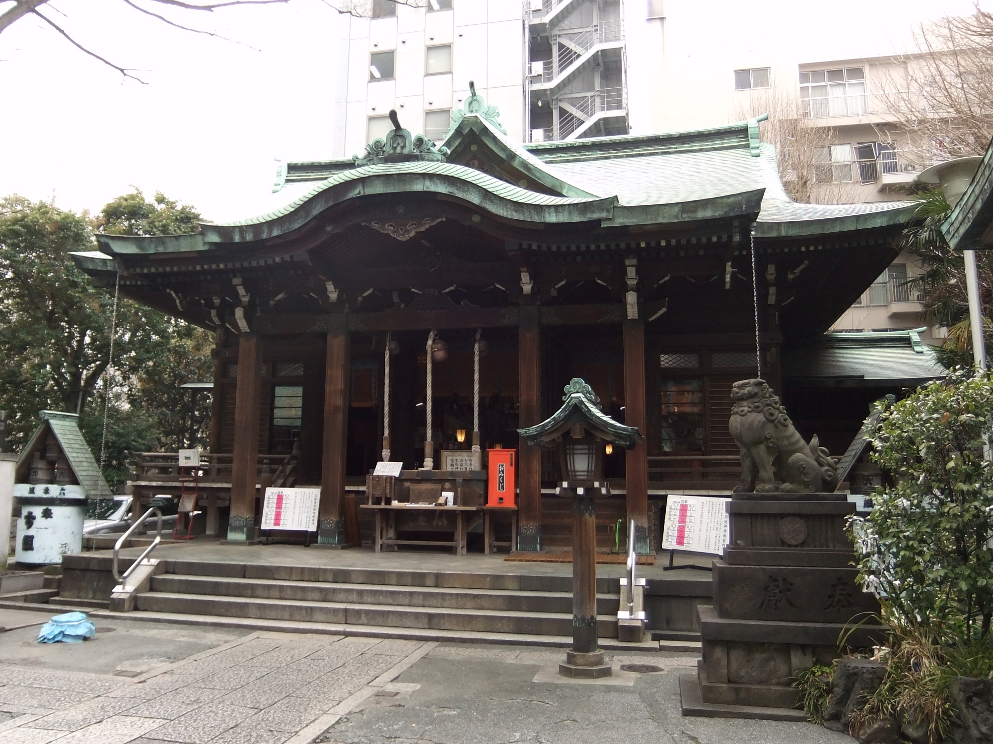 Teppōzu Inari Shrine in Chuo-ku, Tokyo